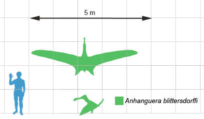 Size of Anhangurea blittersdorffi in flying and standing postures compared with a human. Credit Matt Martyniuk.